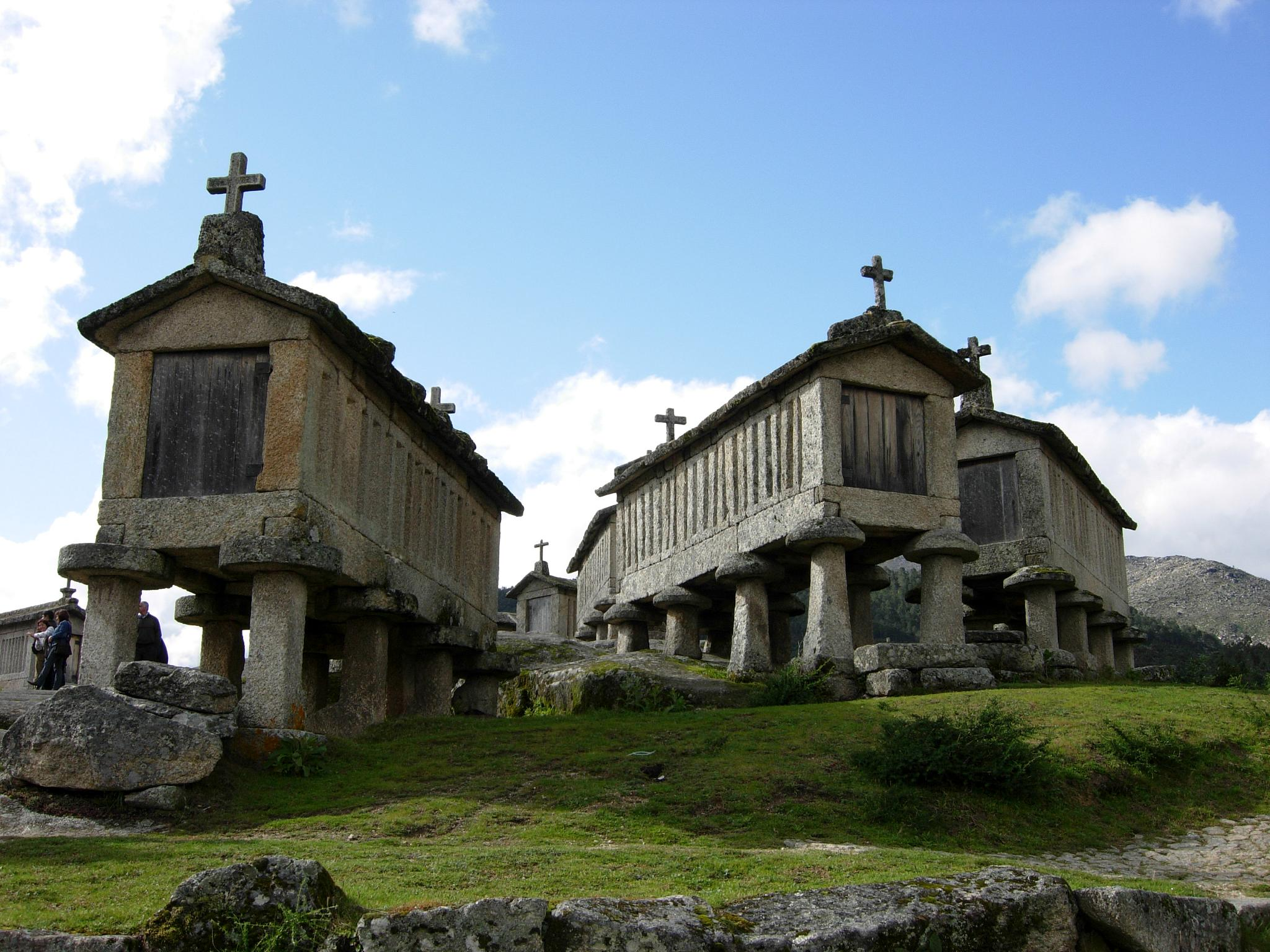 Espigueiros de Soajo, Arcos de Valdevez, Portugal.